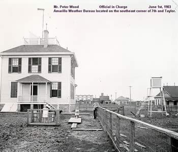 First weather observation station in amarillo, TX